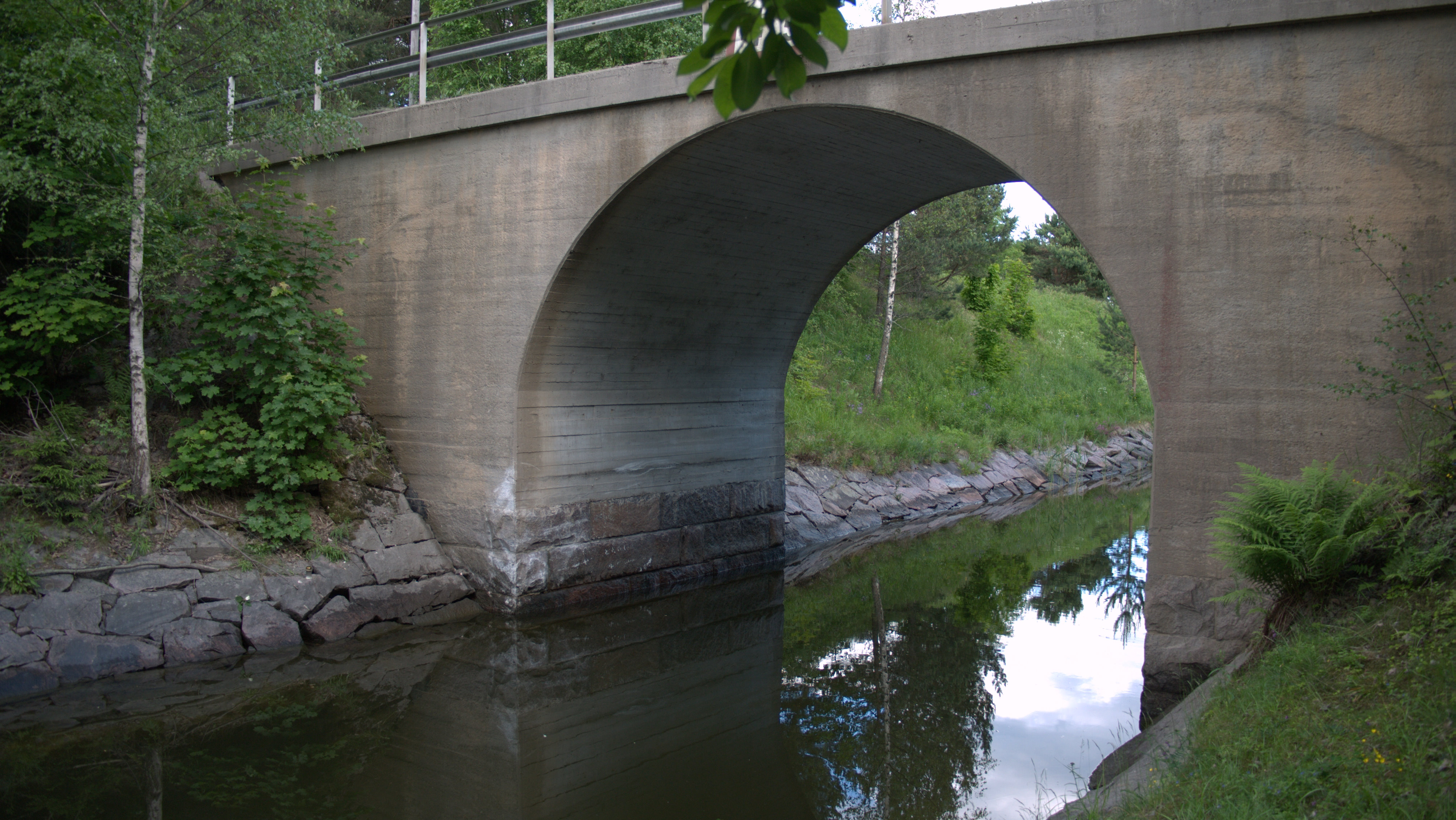 Bridge over Jomalvik canal in Ekenäs, Finland. Damage caused by a boating accident in 2010 involving Jyrki Järvilehto visible on the left side of the bridge.